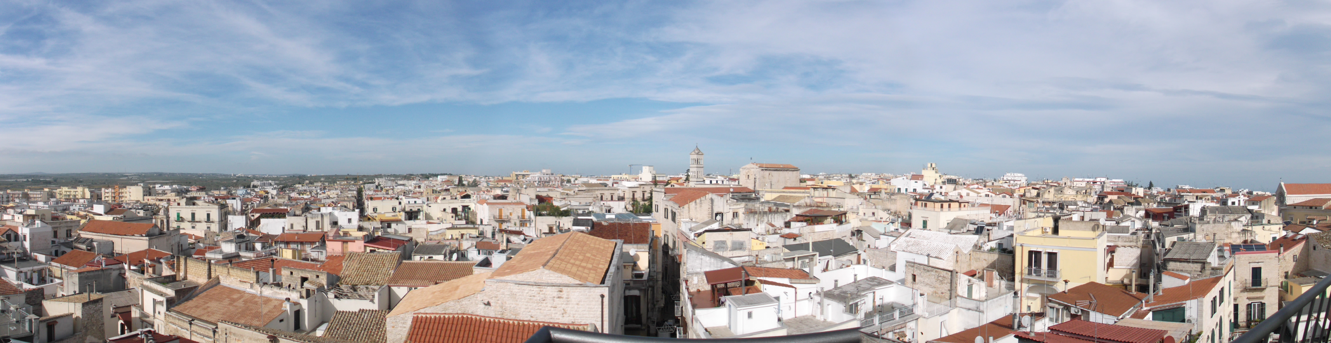 Skyline of Ruvo di Puglia